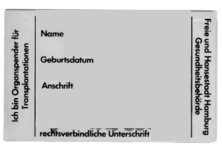 1st german organ donor card, published by the Health Authorities of the senate, Hamburg, (Germany) on November 3rd, 1971